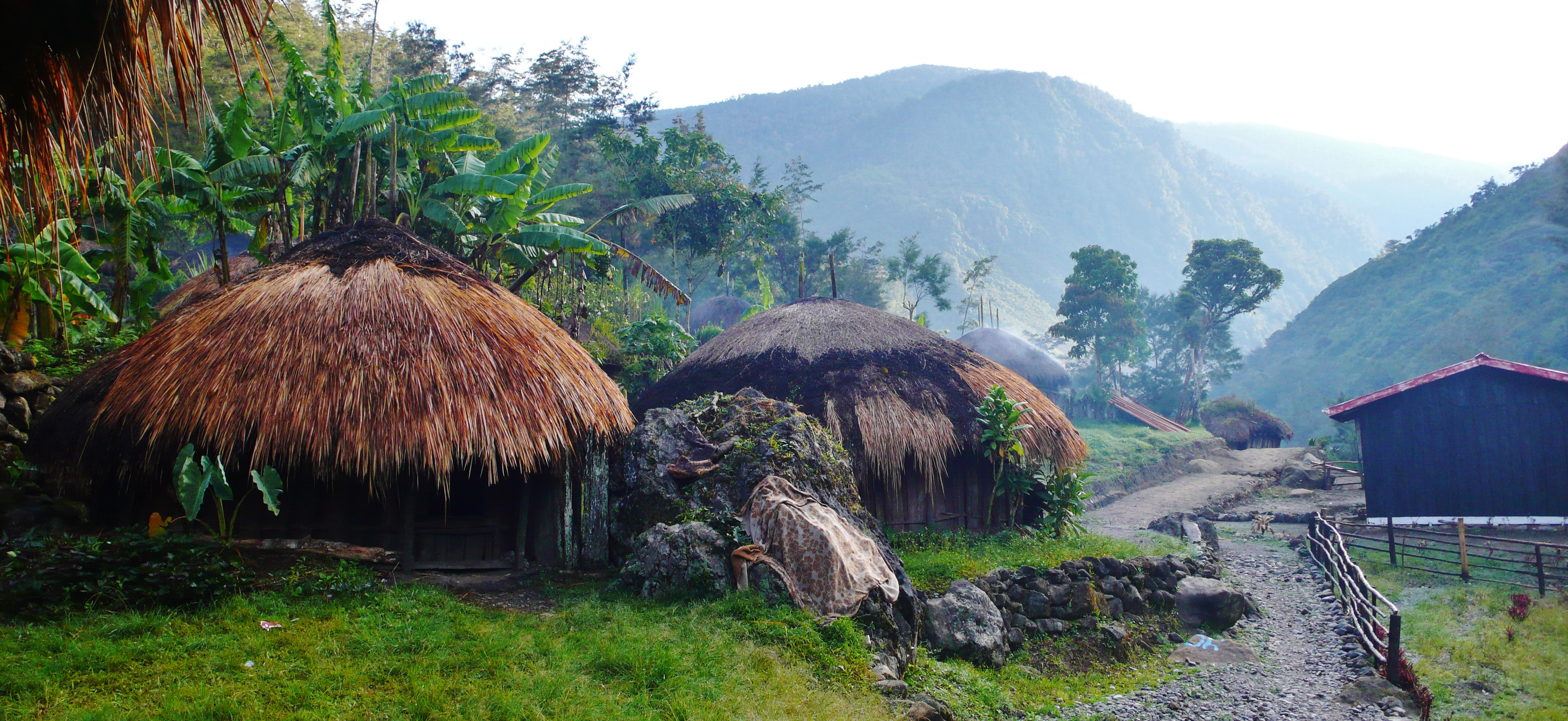 Vallée de Baliem en Papouasie (Indonésie) Baliem Valley in Papua (Indonésia)